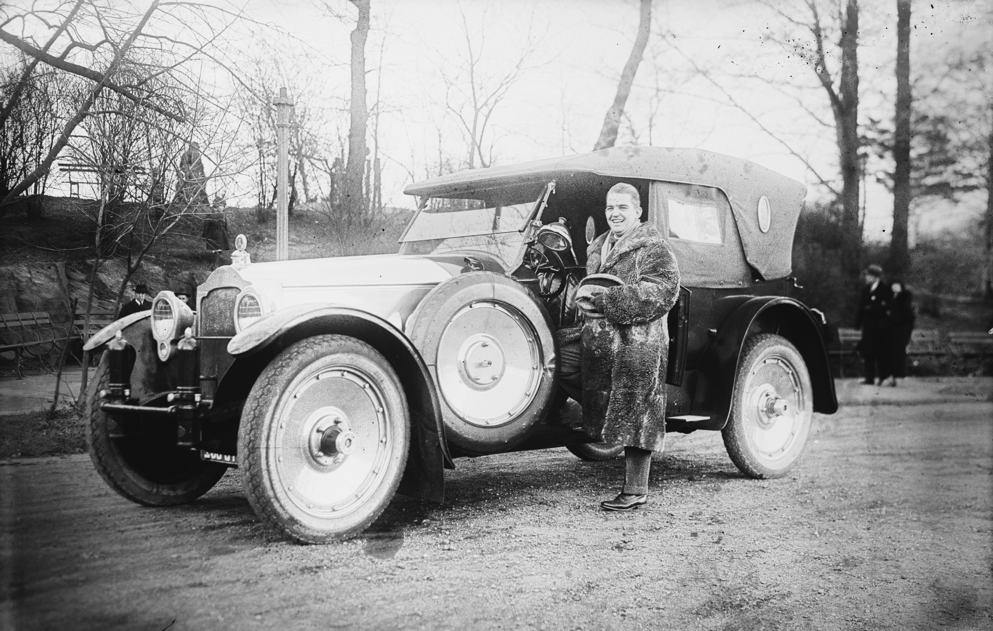 Zez Confrey (1895 – 1971), American composer, with automobile. Car is a Packard Twin Six, 3rd series, model 3-25 (built Aug. 1917 - Aug. 1919); coachbuilt body in the Cloverleaf style. Custom wheels.